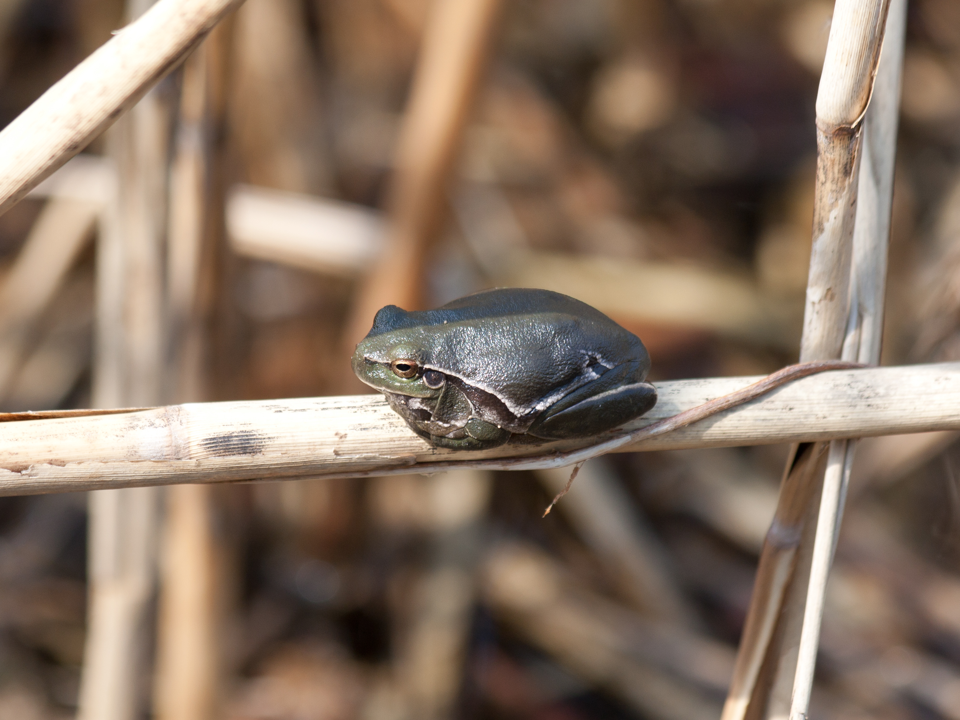 A dark Hyla arborea.